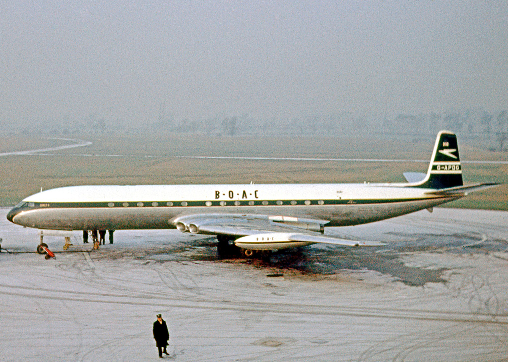 De Havilland 106 Comet 4 G-APDG of BOAC at Manchester Airport in 1963